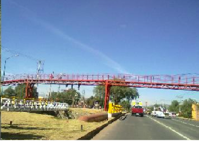 Puente Peatonal